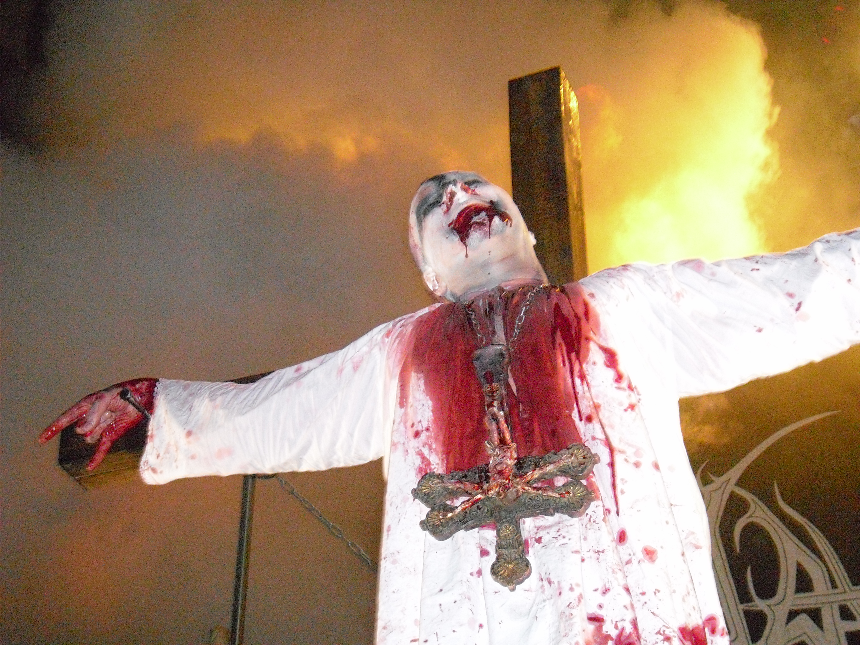 Attila Csihar performing with Mayhem at Inferno Metal Festival, Oslo, Norway, 2 April 2010